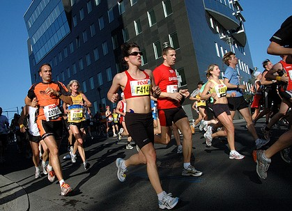 Berlin Marathon 2007